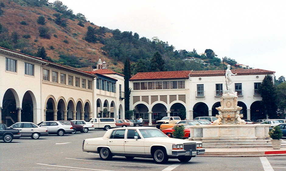 Malaga Cove Plaza — in Palos Verdes Estates. On the Palos Verdes Peninsula, Southern California. Photo by gyrofrog, July 1991.